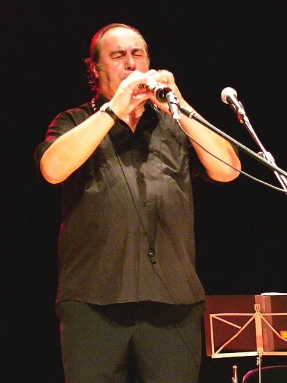 folk musician Fernando Ortiz playing dulzaina with Nuevo Mester de Juglaría in Castelló